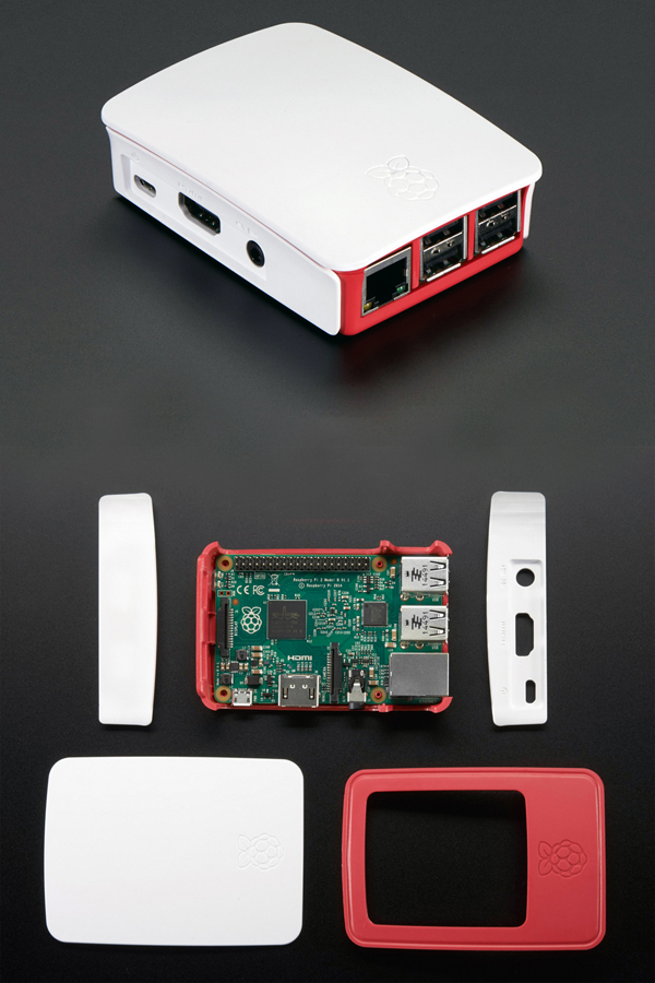 official Raspberry Pi case